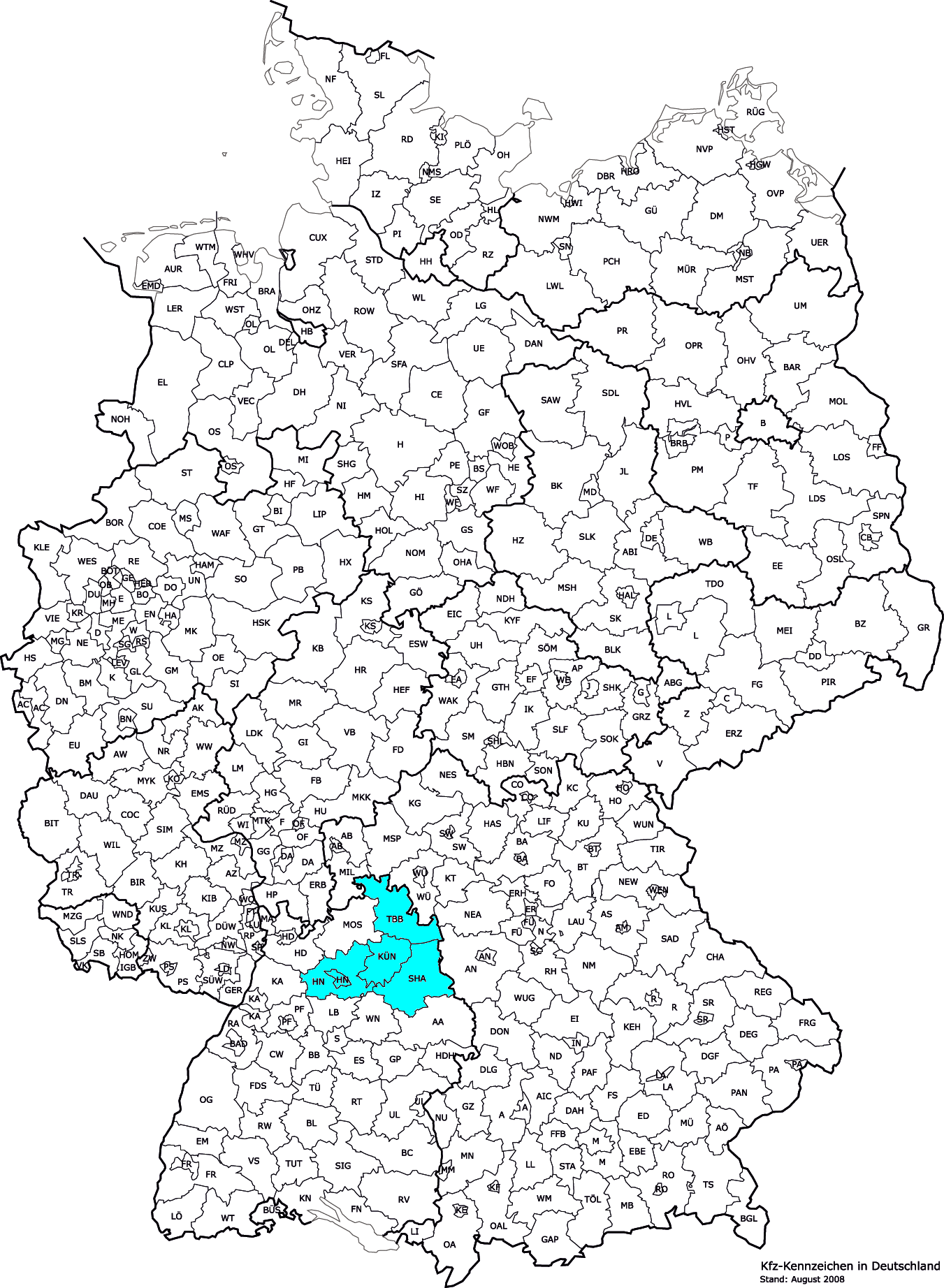 Tauber-Franconia